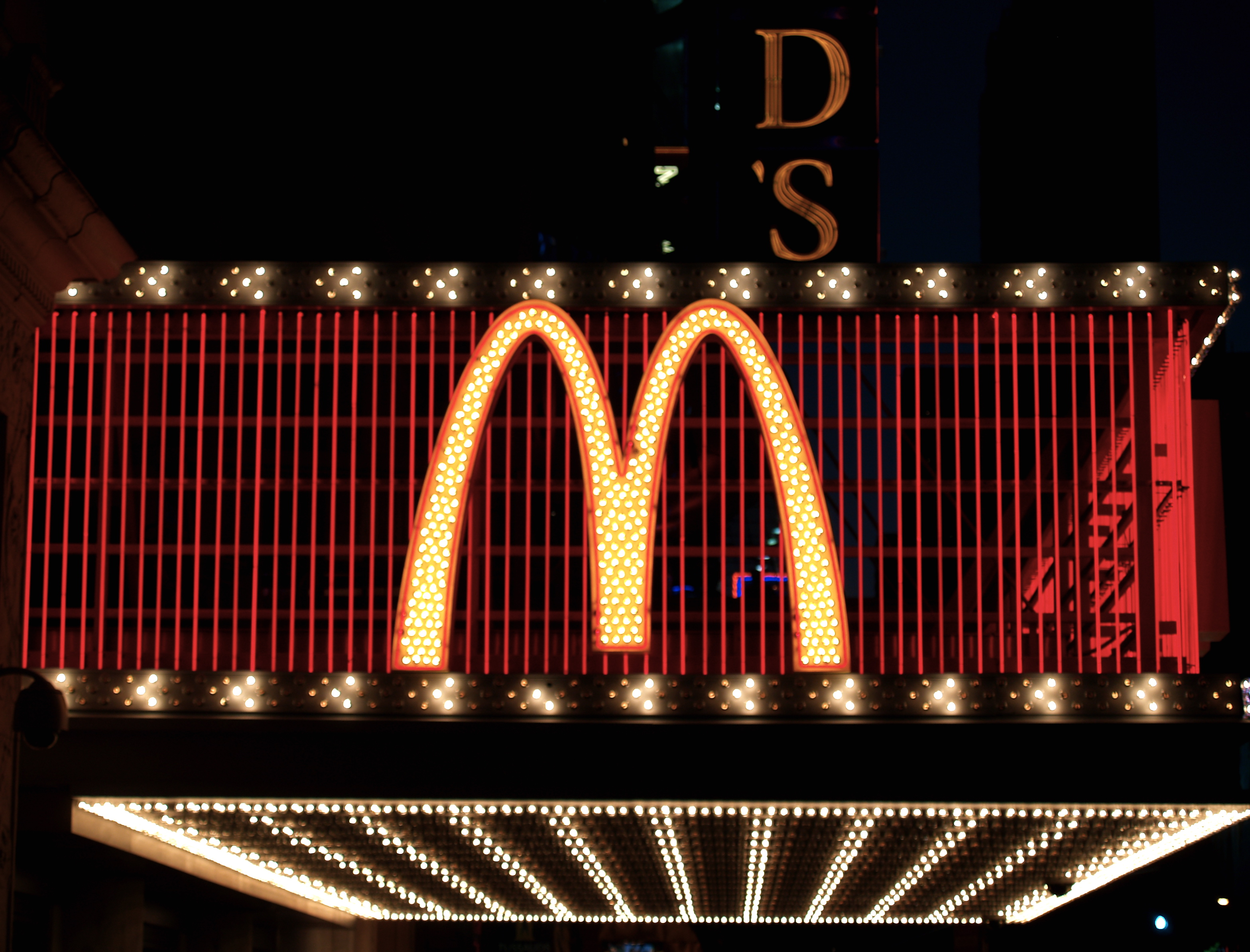 MacDonalds sign in Times Square, New York